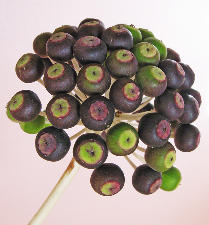 This is the fruit of the Fatsia japonica [False Castor Oil Plant] in my garden. It flowers in early spring and fruits are ripe now. Poisonous!